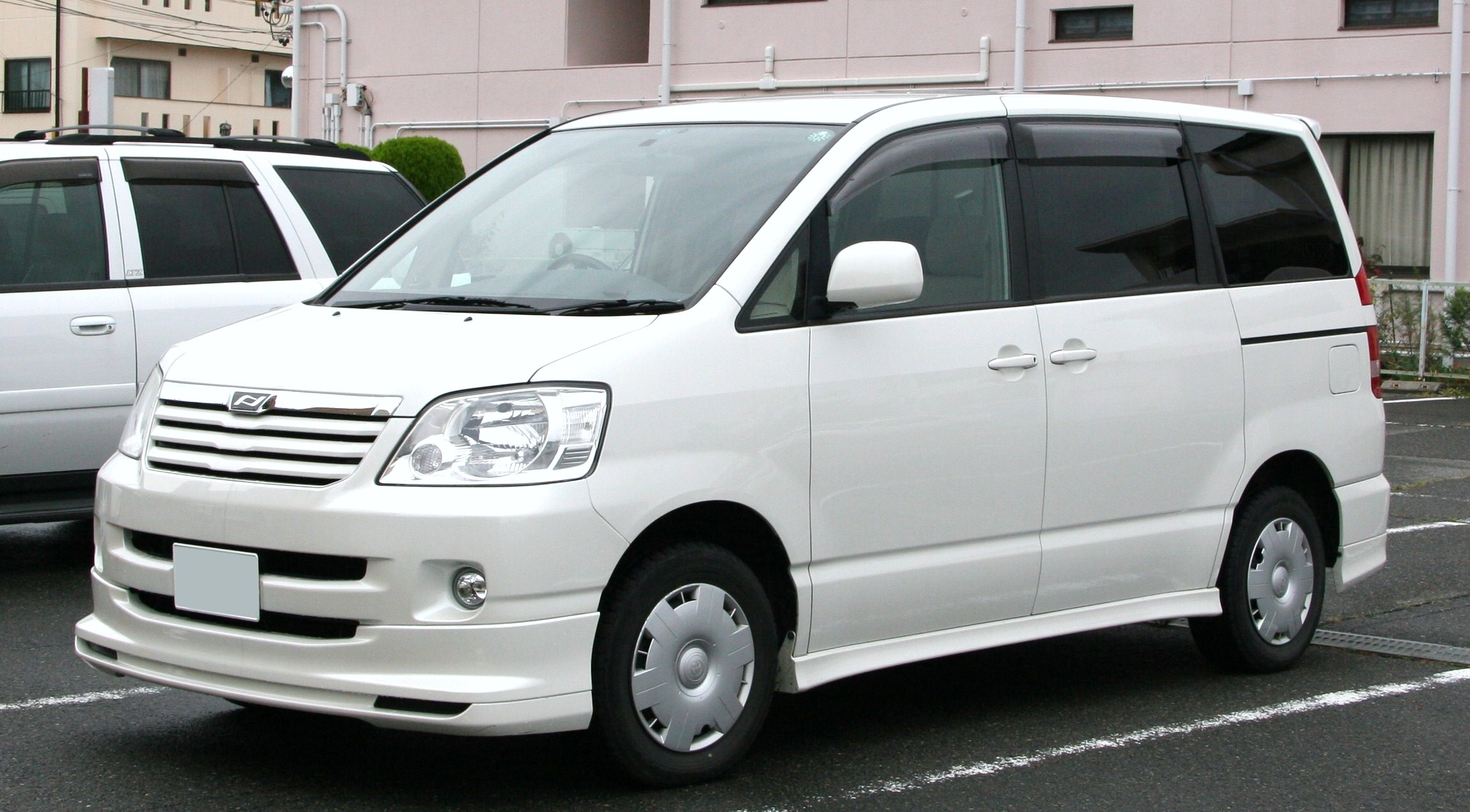 Toyota Noah